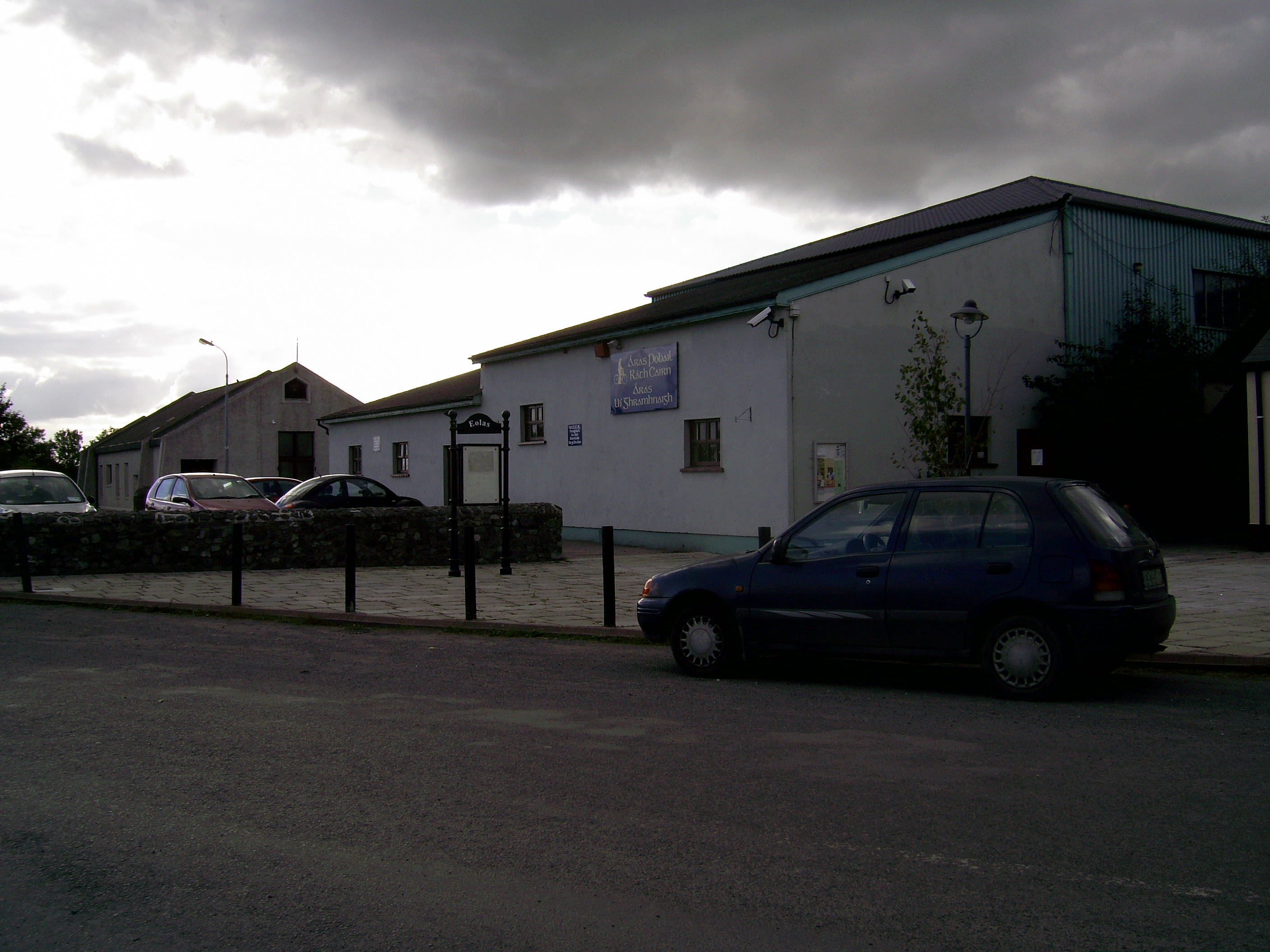 An Halla Rath Cairn.jpg